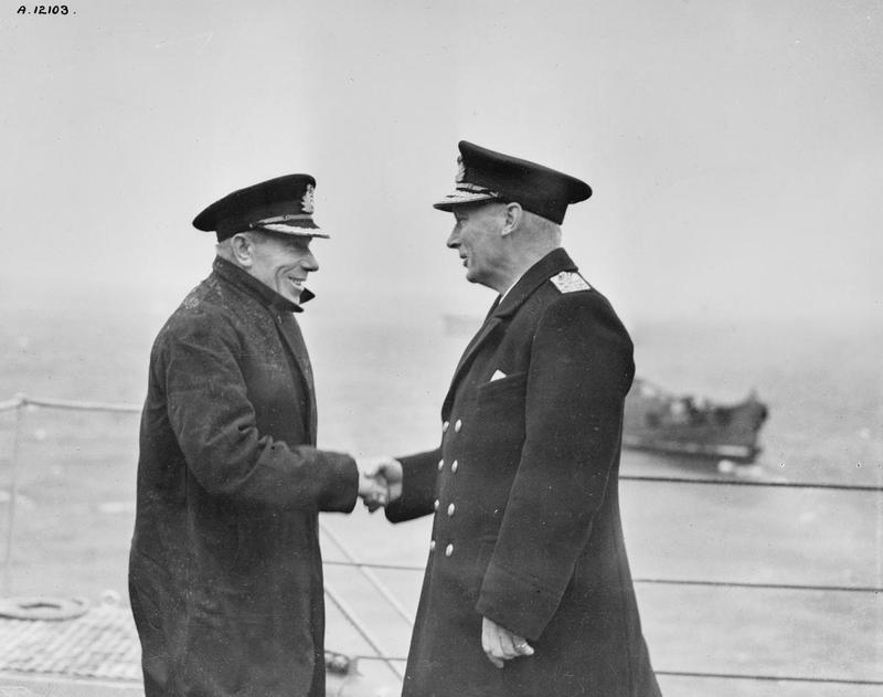 Admiral Sir Max Horton, (admiral Submarines), Visits the C-in-c Home Fleet. 28 September 1942. Sir John Tovey (right) shaking hands with Commodore John Charles Keith Dowding, who commanded the homeward bound convoy.Depicted people: John Dowding and John Tovey, 1st Baron Tovey